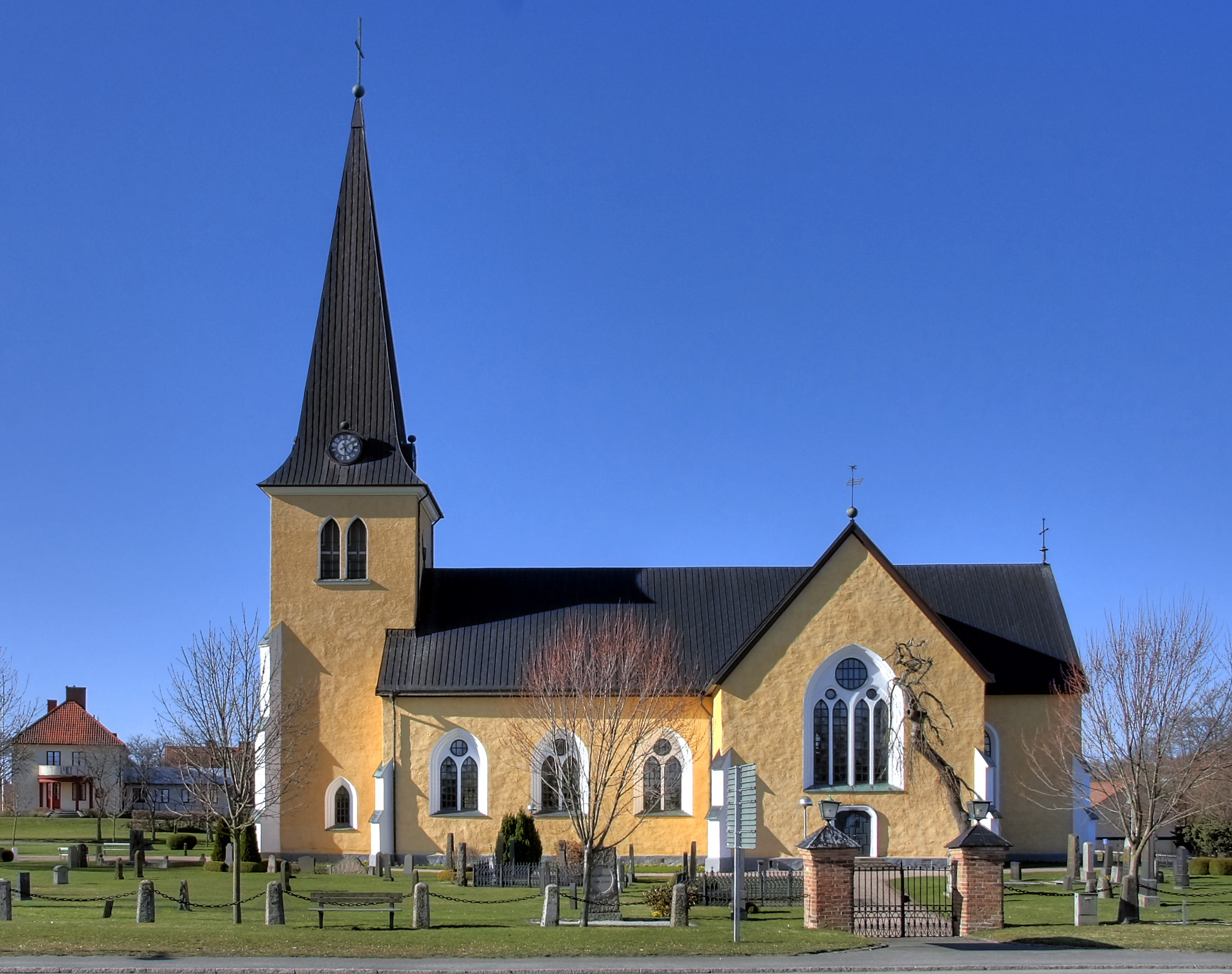 Östra Broby kyrka, parish church in Broby in Scania, Sweden.